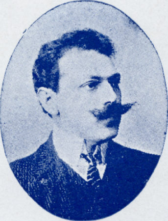 Dimitrios Karakitis (19th c.-20th c.): Greek politician